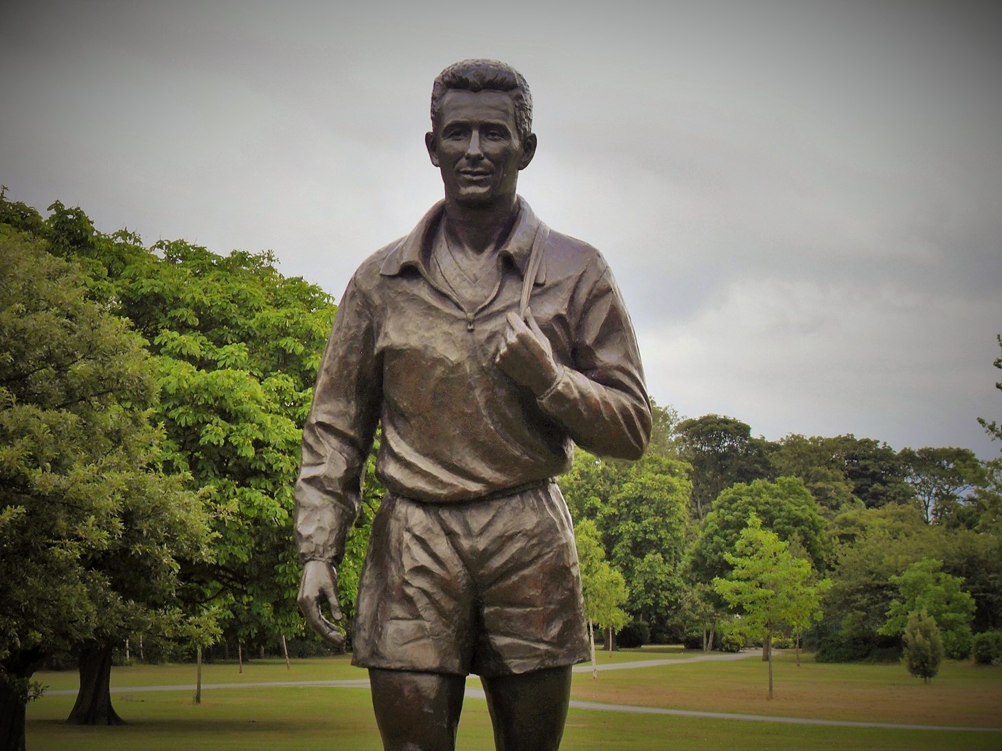 The Brian Clough statue which stands in Albert Park, Middlesbrough.